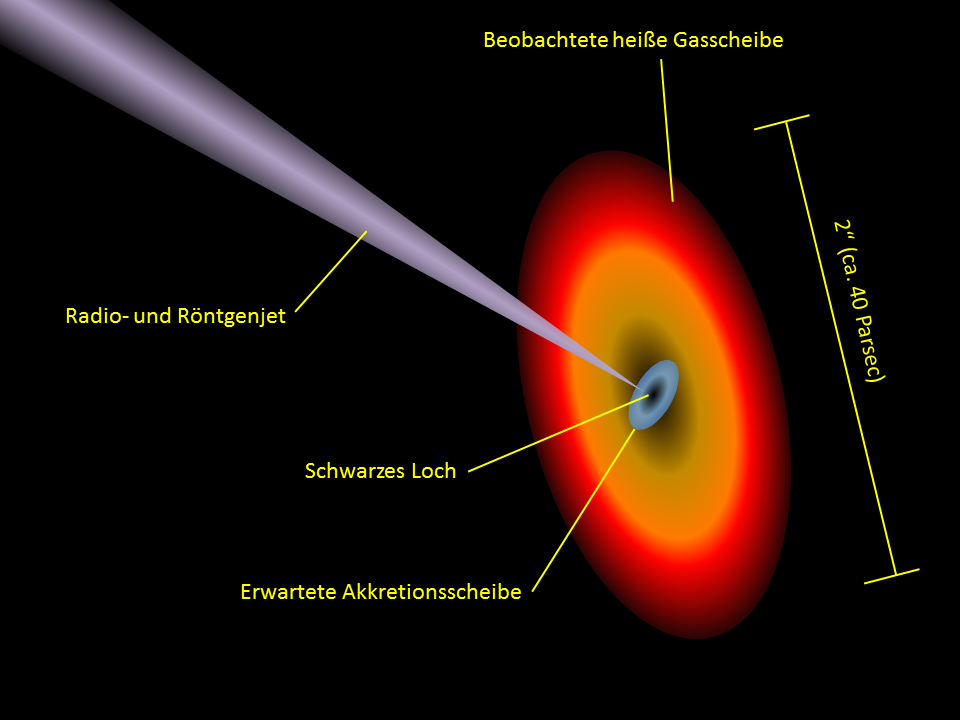 Central part of the galaxy Centaurus A